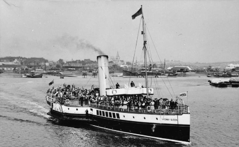 HMS Medway Queen Sailing past the entry to a harbour whilst in civilian service.